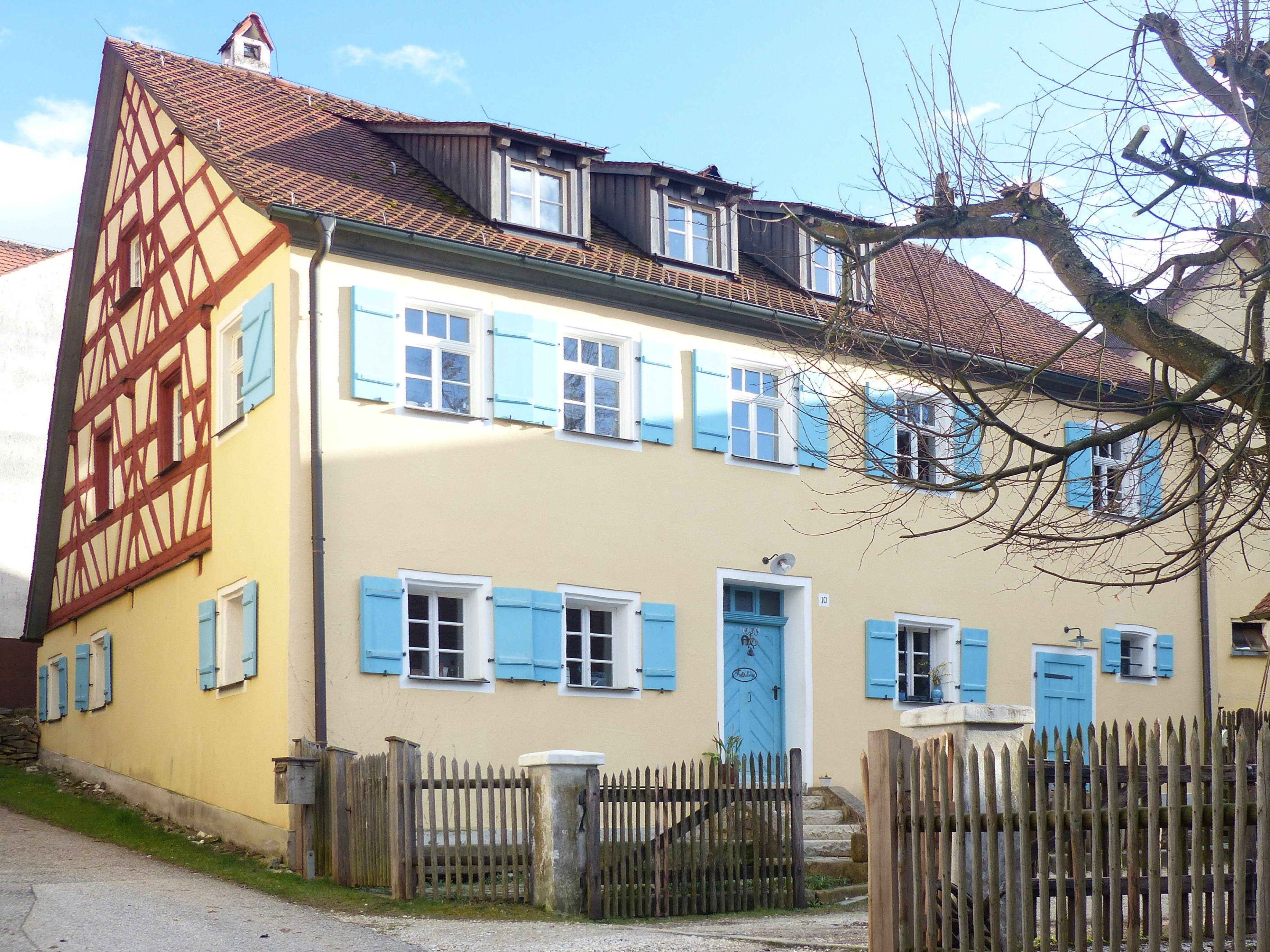 The former byre-dwelling house of a farm in the village Sendelbach, a part of the municipality of Engelthal